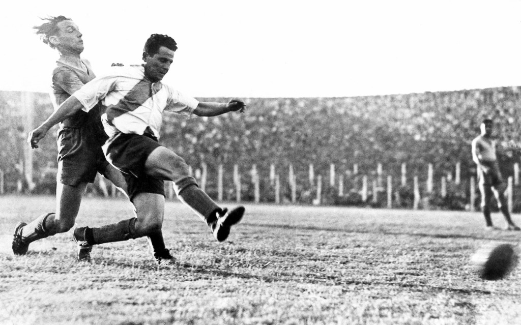 Argentine footballer Bernabé Ferreyra scoring a goal for River Plate v Boca Juniors. River won 3-2 at San Lorenzo Gasómetro.